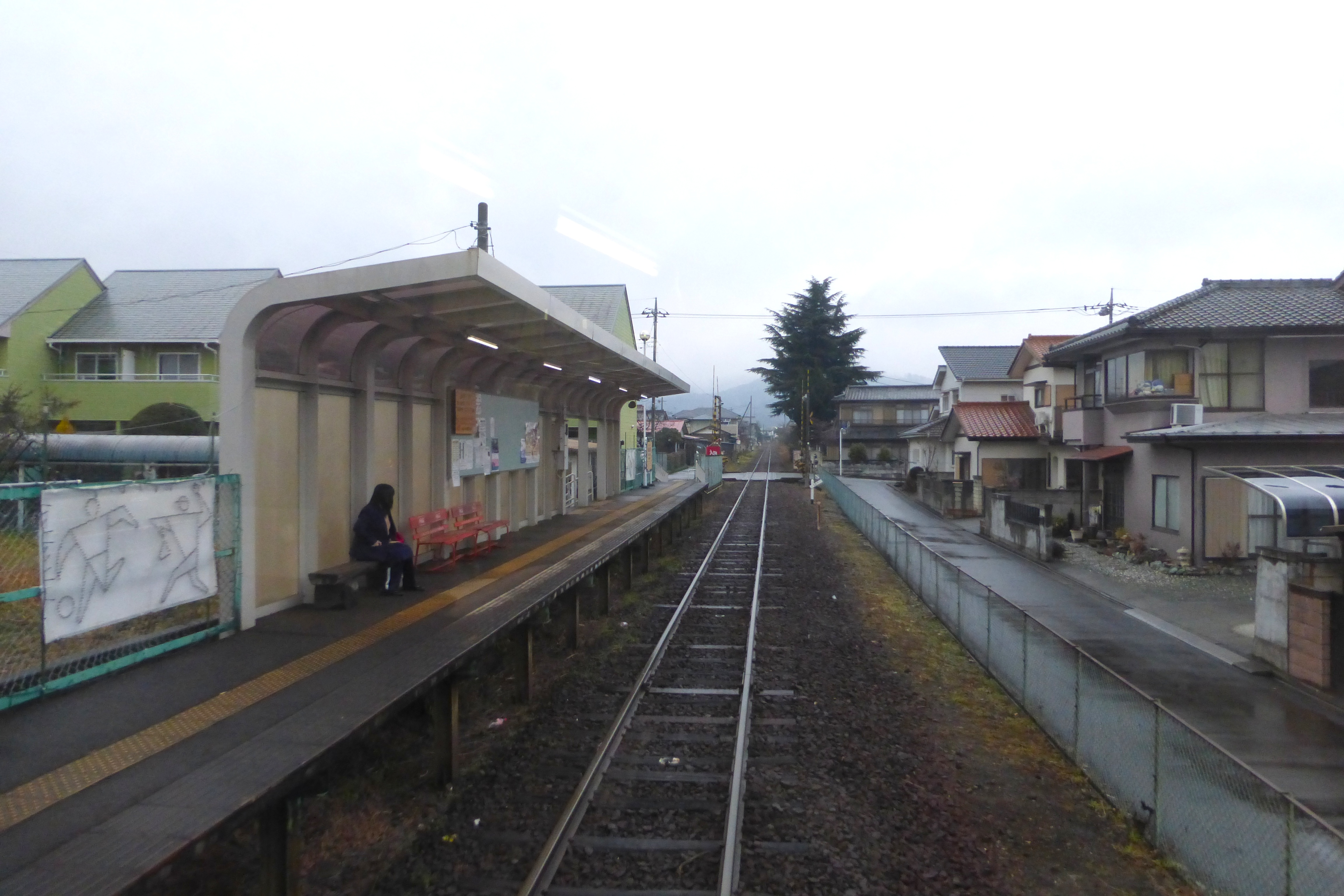 Undō-Kōen Station (運動公園駅 Undō-kōen-eki) platform on a rainy, almost snowy, day.